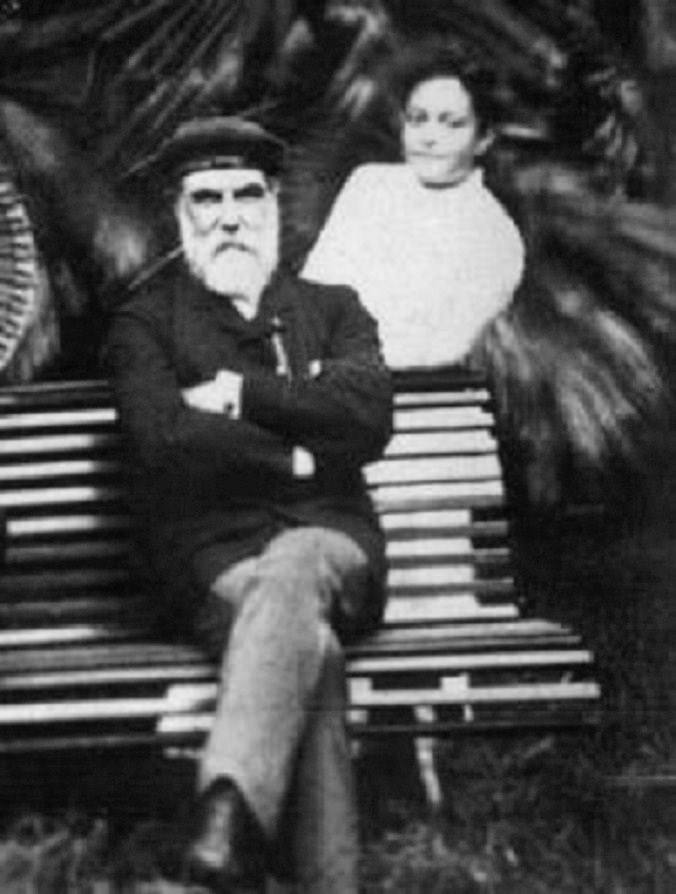 Archibald Cleghorn and his daugher Princess Kaʻiulani at ʻĀinahau